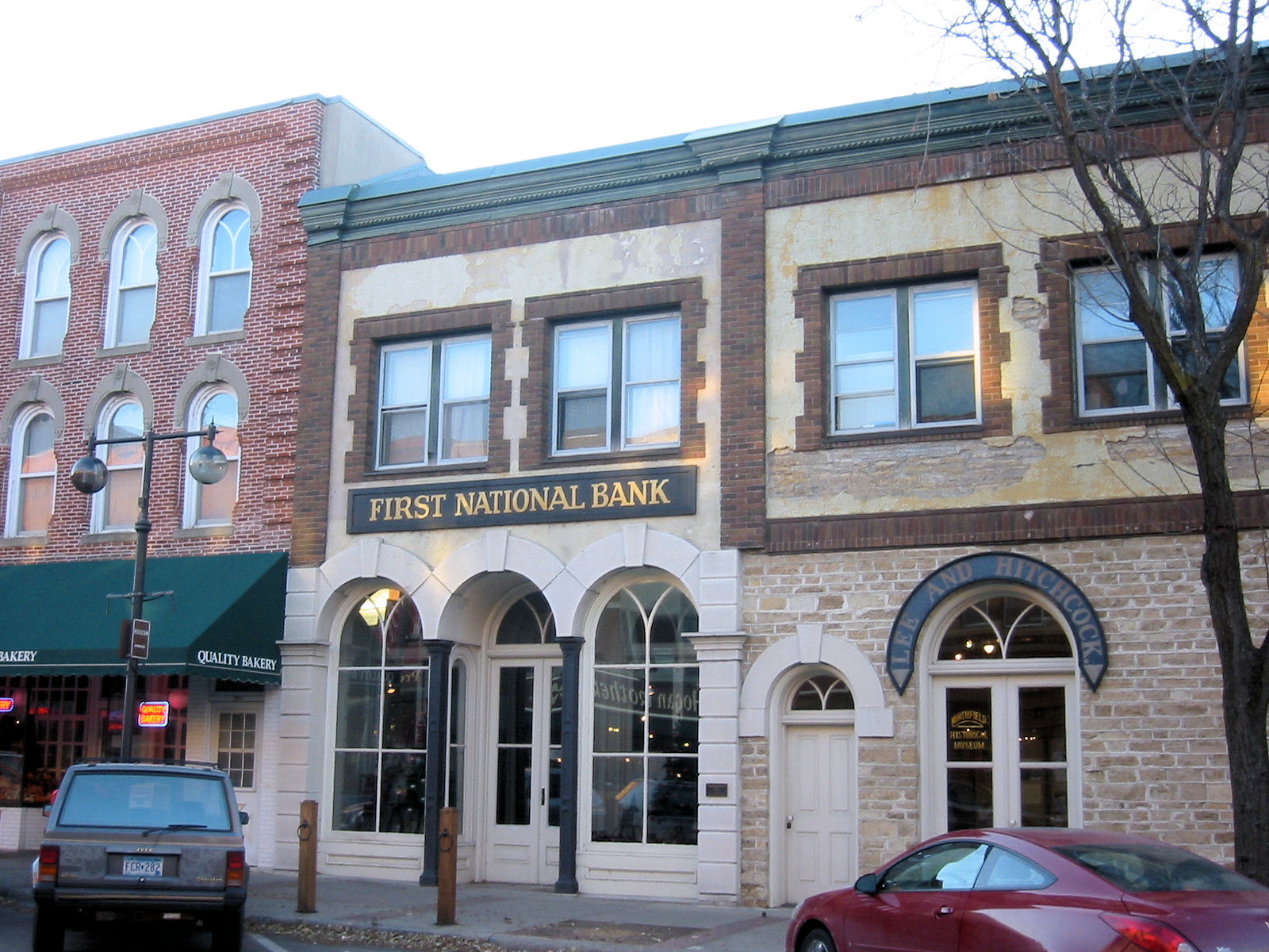 The First National Bank in Northfield, Minnesota robbed by the James-Younger Gang on September 7, 1876. This is now a museum, no longer an operating bank. This is located within the Scriver Block Building.